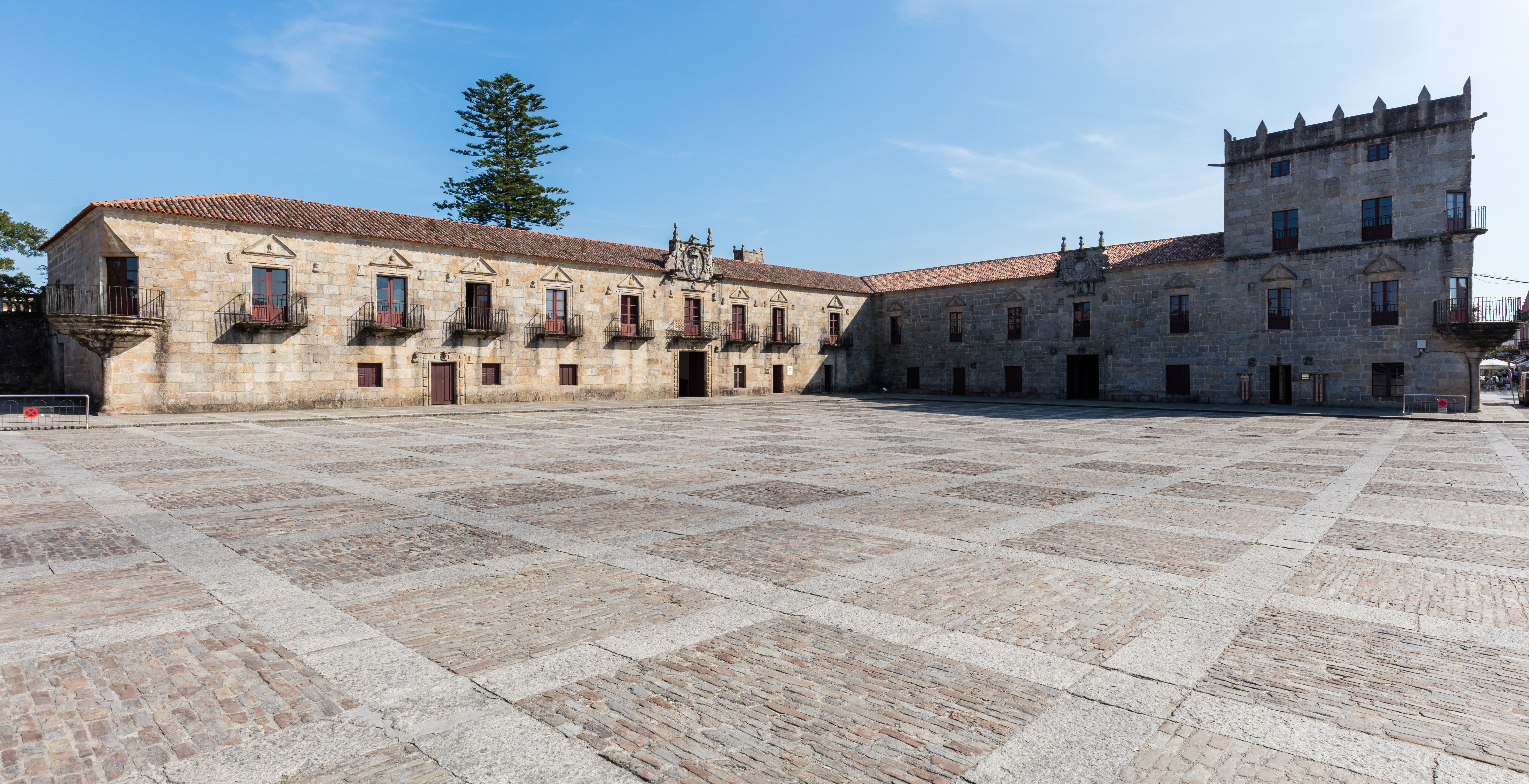 Fefiñans Palace, Cambados, Pontevedra, Spain